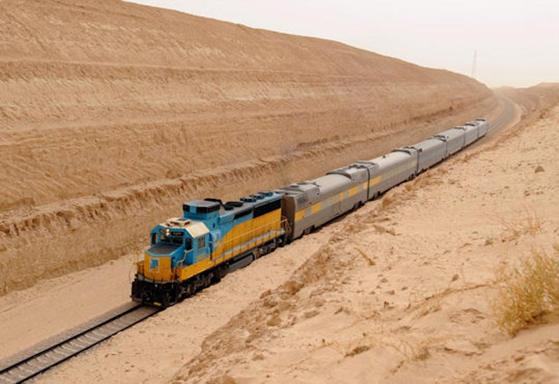 Dammaam–Riyadh railway Line